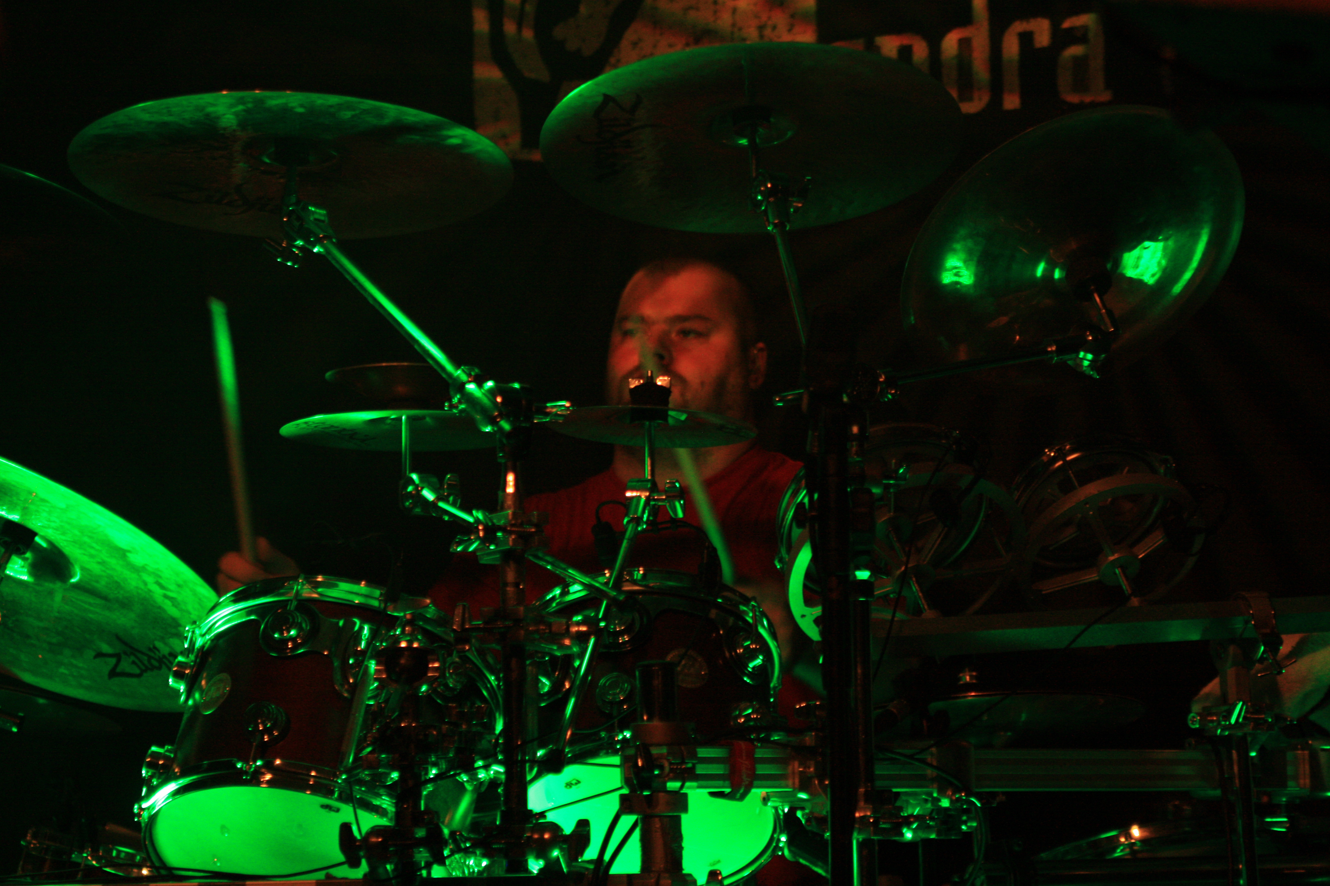 Piotr "Mitloff" Kozieradzki of Polish rock band Riverside